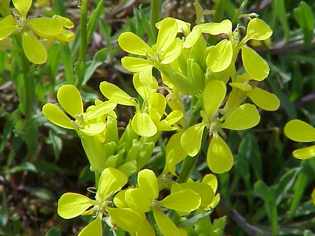 Species: Erysimum helveticum Family: Brassicaceae Image No. 1